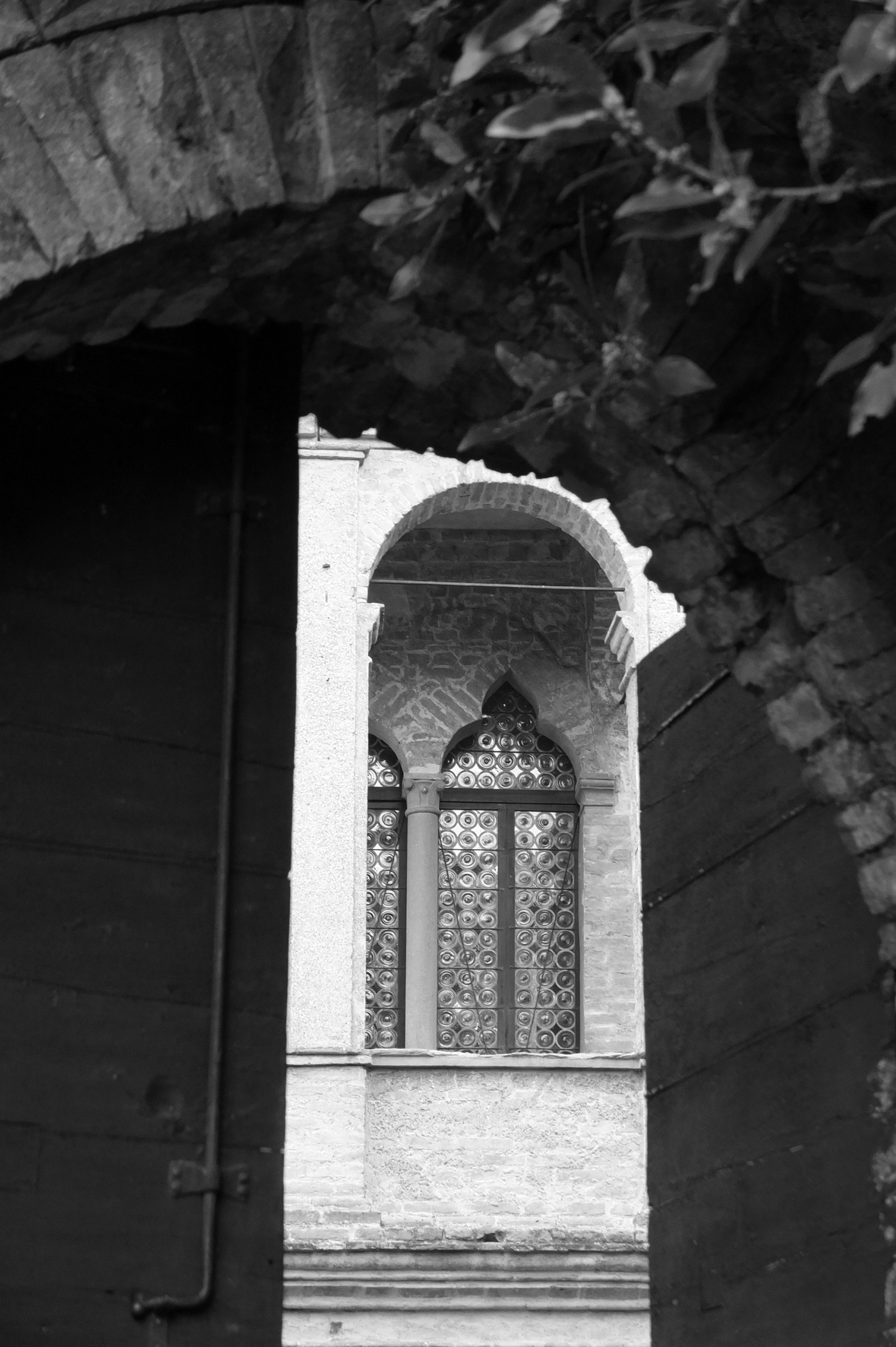 This is a photo of a monument which is part of cultural heritage of Italy.